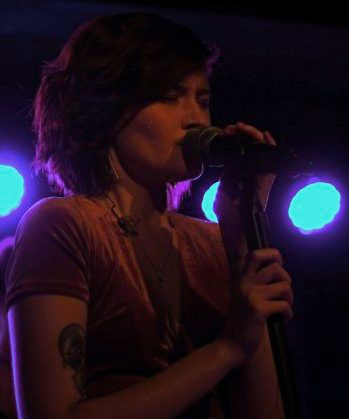 Madeline Juno at Zoom 2017.